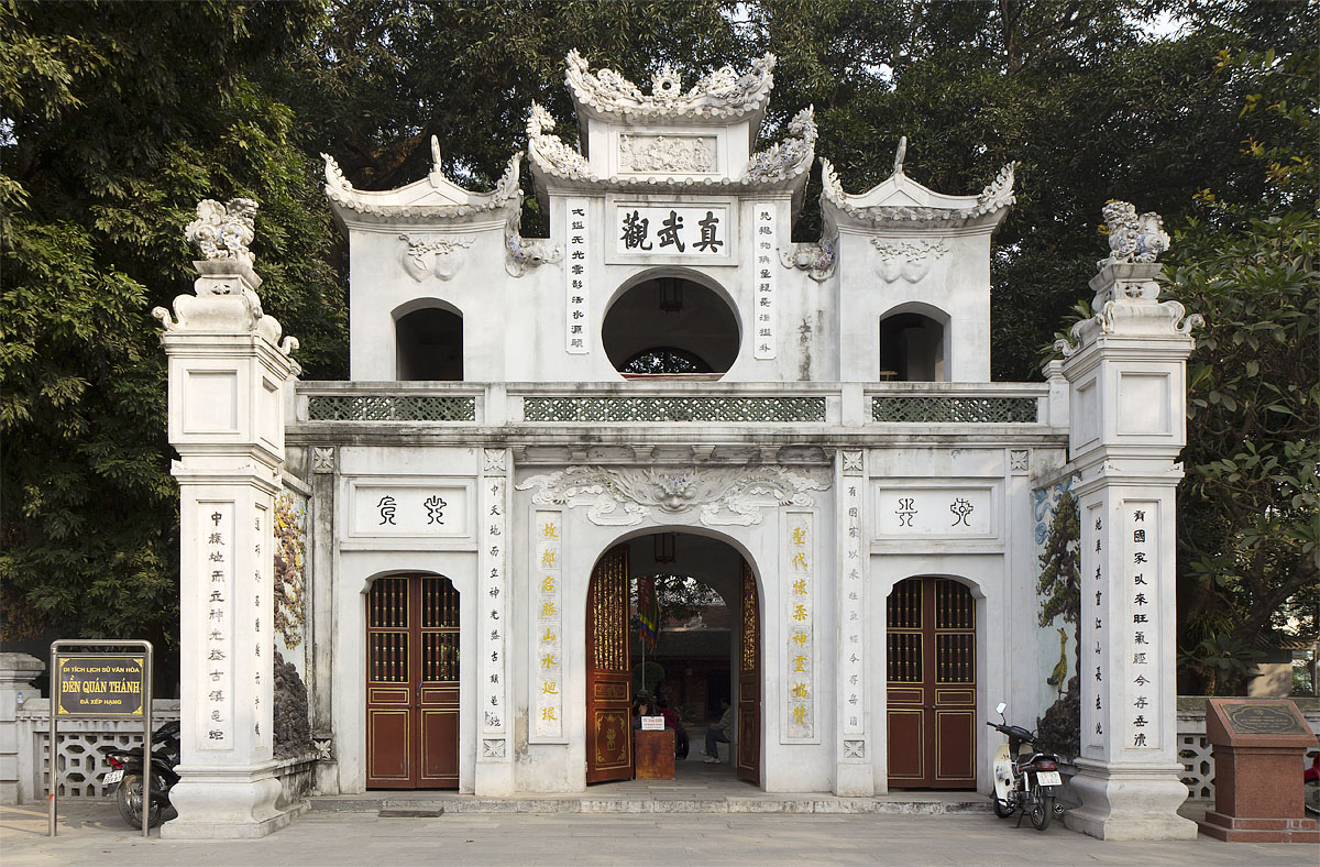 Quán Thánh Temple, Hanoi, Vietnam